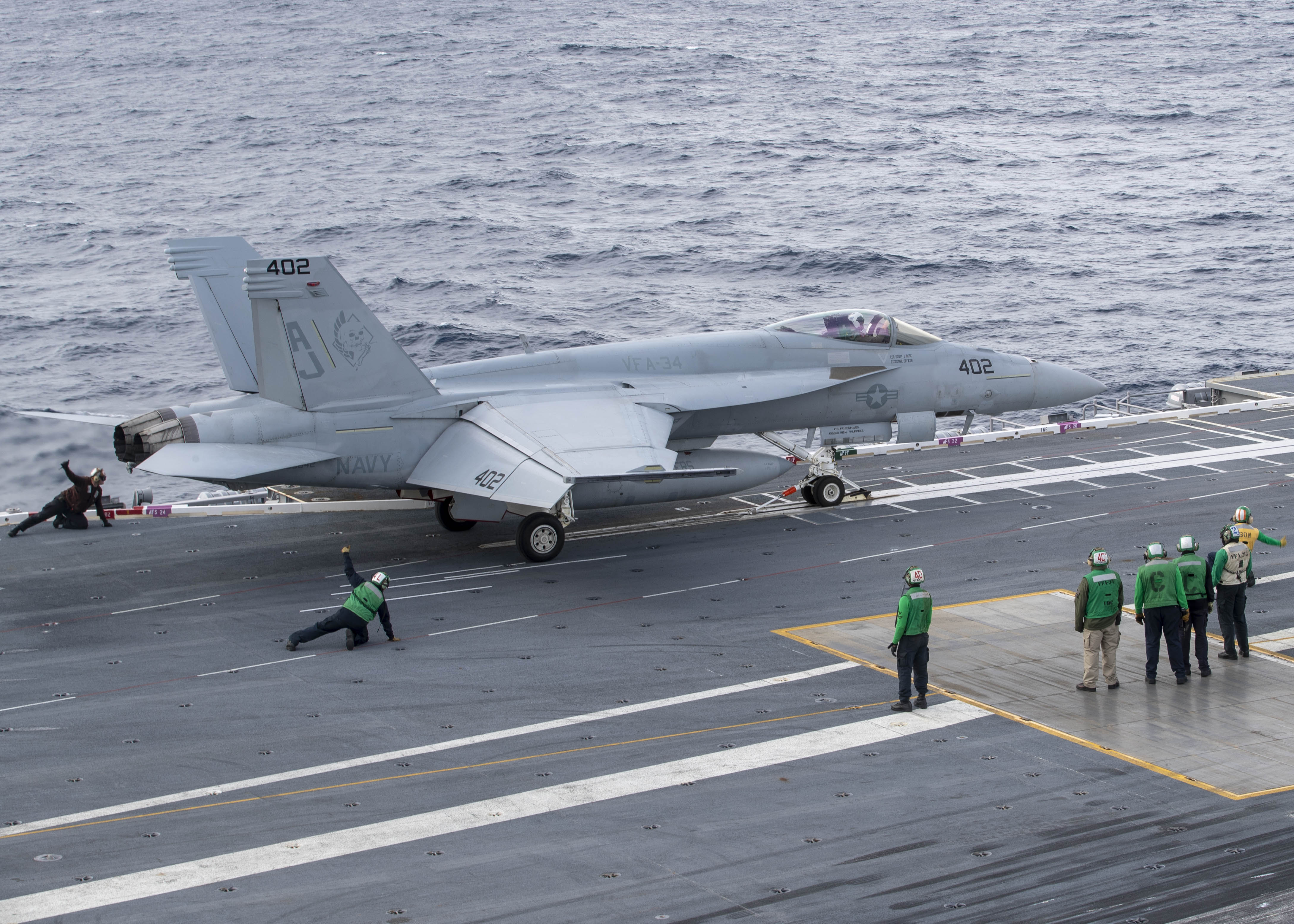 A U.S. Navy Boeing F/A-18E Super Hornet of Strike Fighter Squadron 34 (VFA-34) "Blue Blasters" is launched from the aircraft carrier USS Gerald R. Ford (CVN-78) during flight operations in the Atlantic Ocean, 24 March 2020. Gerald R. Ford was underway conducting carrier qualifications.